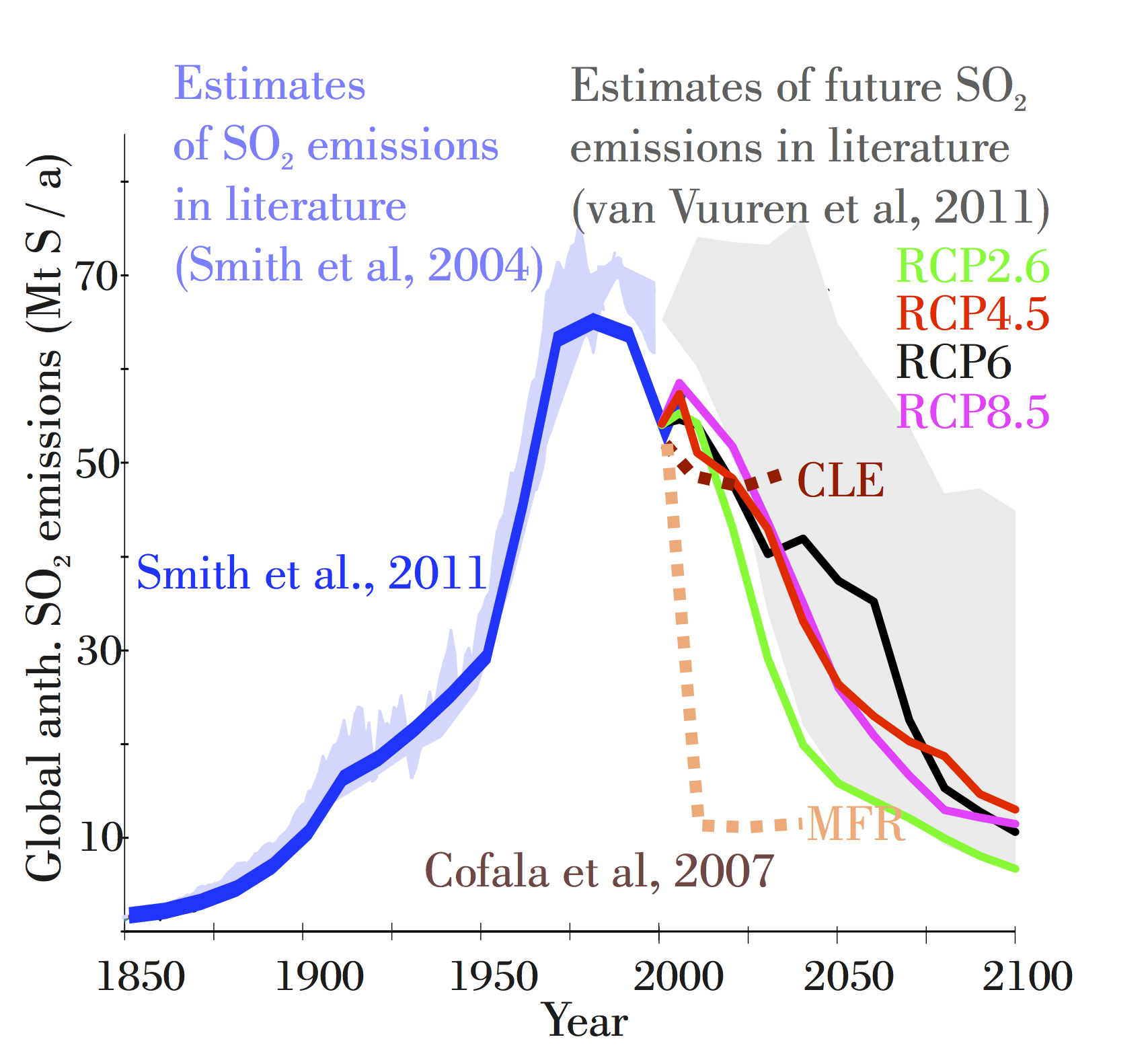 Based on literature search, this is a collection of estimates of past and future anthropogenic global sulphur dioxide emissions. The Cofala et al estimates are for sensitivity studies on SO2 emission policies, CLE: Current Legislation, MFR: Maximum Feasible Reductions. RCPs (Representative Concentration Pathways) are used in CMIP5 simulations for latest (2013-2014) IPCC 5th assesment report. References: Cofala, J., et al. (2007) Scenarios of global anthropogenic emissions of air pollutants and methane until 2030. Atmos. Env., 41:8387–8499. Smith, S.J., et al (2004) Historical sulfur dioxide emissions 1850-2000: Methods and results. PNNL Research Report PNNL-14537 Smith, S.J. et al (2011) Anthropogenic sulfur dioxide emisssions: 1850-2005, Atmos. Chem. Phys., 11, van Vuuren, D. P., et al. (2011) The representative concentration pathways: an overview. Clim. Change, 109:5–31. z.